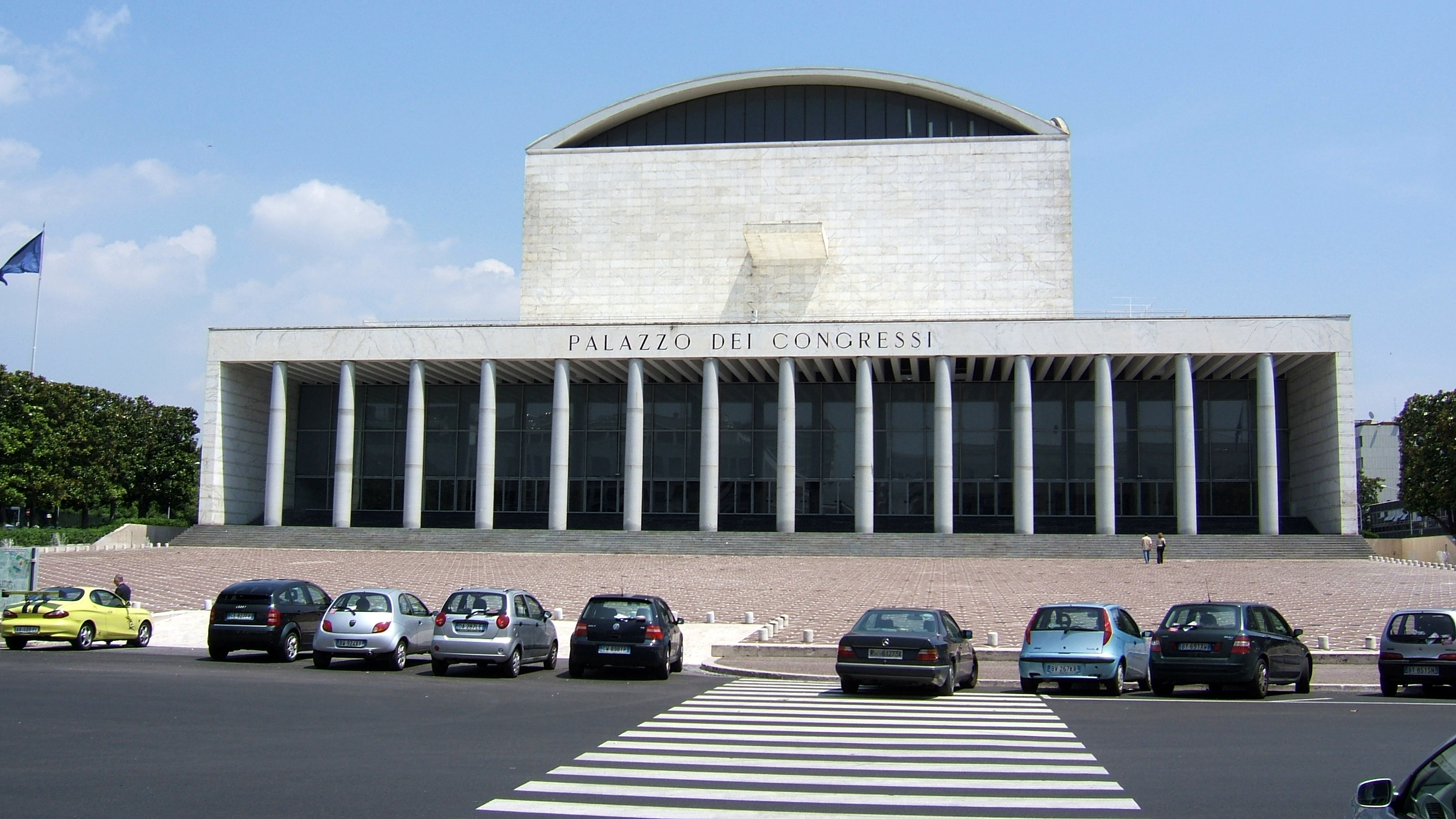 2007-06-11 in Rome.